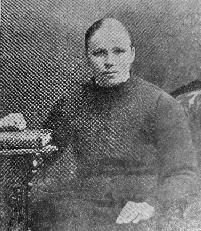 Picture of the prophet Helena Konttinen.